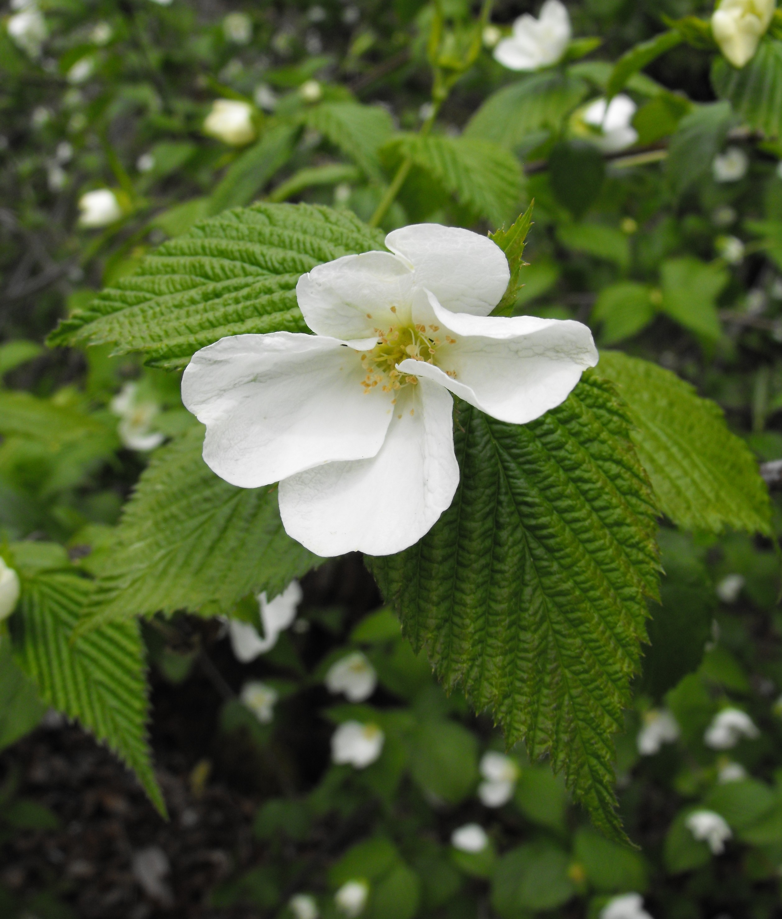 Rhodotypos scandens at the UC Berkeley Botanical Garden, California, USA. Identified by sign.